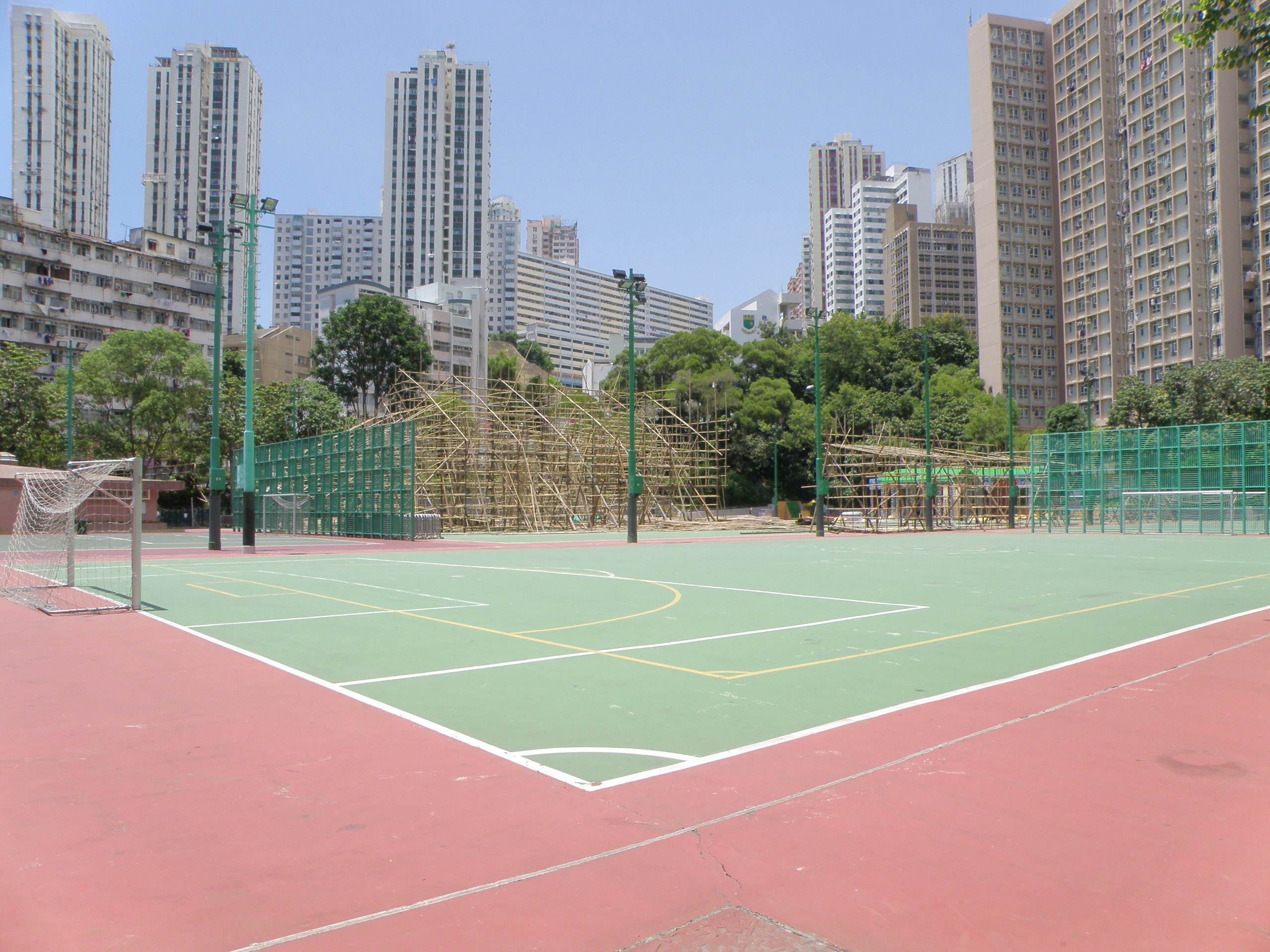 Hong Ning Road Playground in Kwun Tong, Hong Kong.